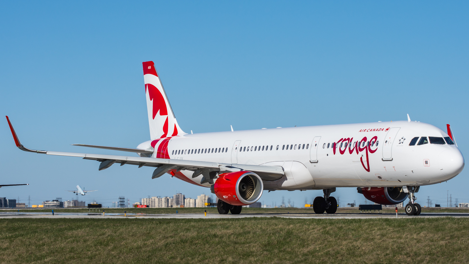 Air Canada Rouge Airbus A321 at Lester B. Toronto Pearson Int'l Airport